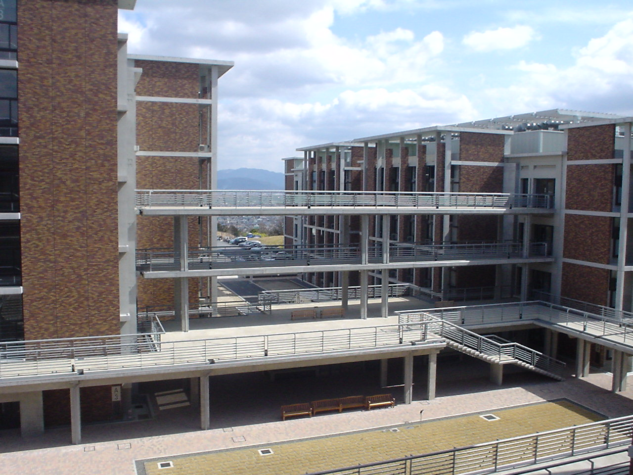 Kyoto University's faculty of engineering, Kyoto, Japan